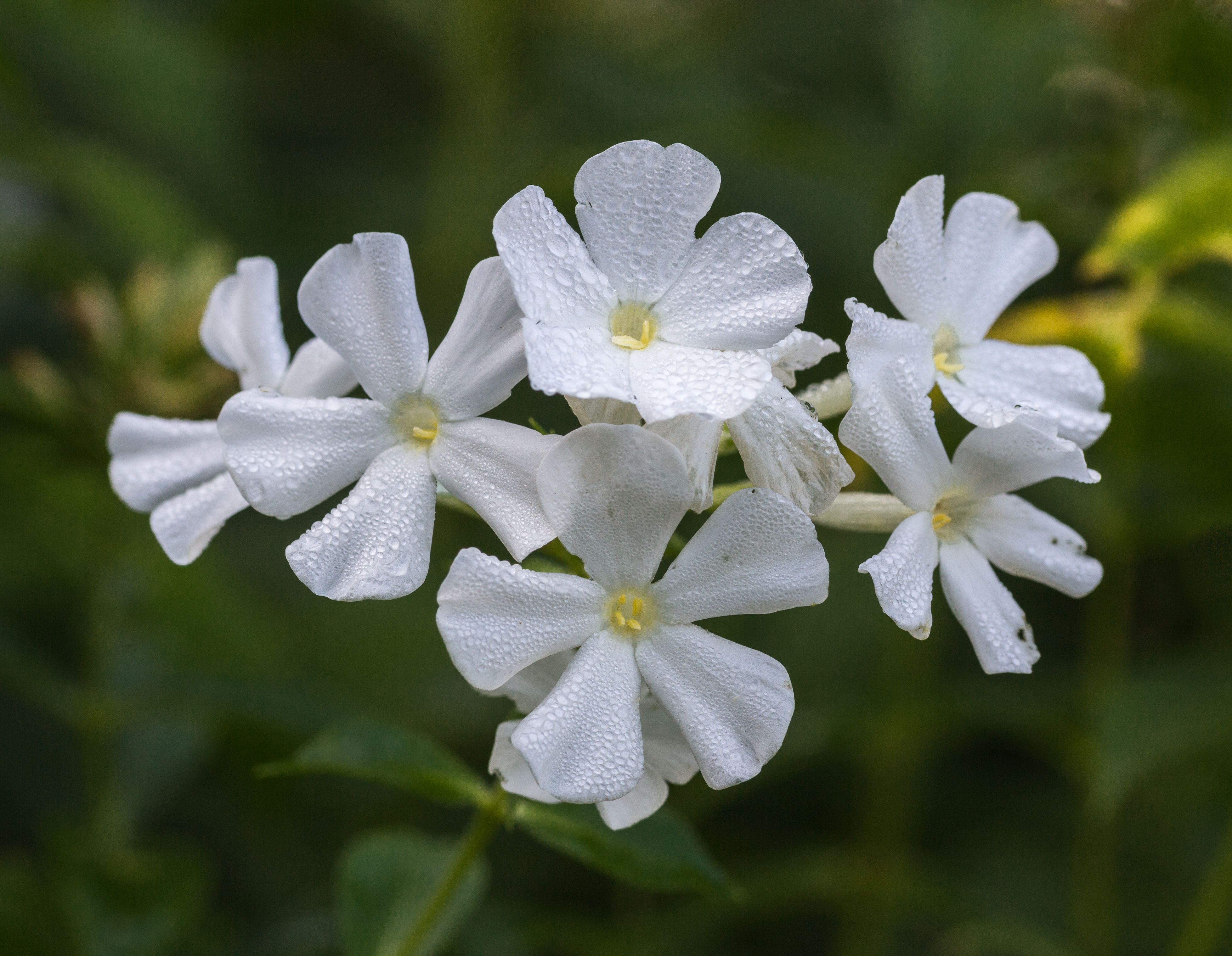 Phlox paniculata 'Fujiyama'. Location The Kruidhof.